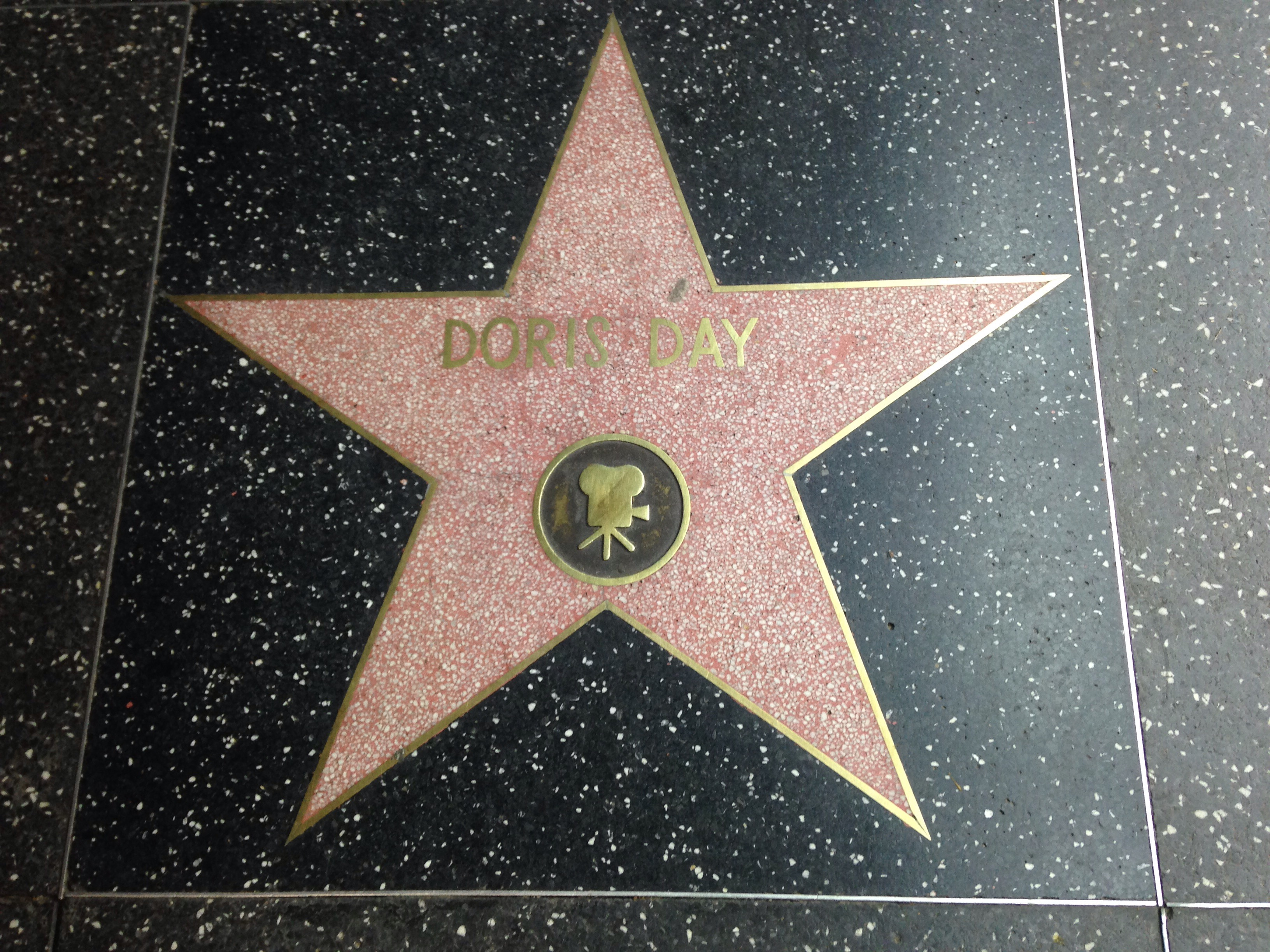 Doris Day's Hollywood star on the Walk of Fame